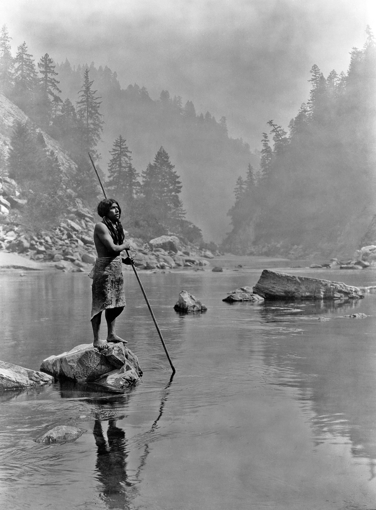 Hupa man with spear, 1923. A Hupa man with his spear. A smoky day at the Sugar Bowl--Hupa, c. 1923. Hupa man with spear, standing on rock midstream, in background, fog partially obscures trees on mountainsides. A smoky day at the Sugar Bowl Edward Curtis, photographer. Hupa fisherman. A Hupa fisherman—In the early 20th century, Edward Curtis traveled across America recording photographs of the disappearing lifestyle of American Indian tribes. A smoky day at the Sugar Bowl. Salvage ethnography (Hupa fisherman).